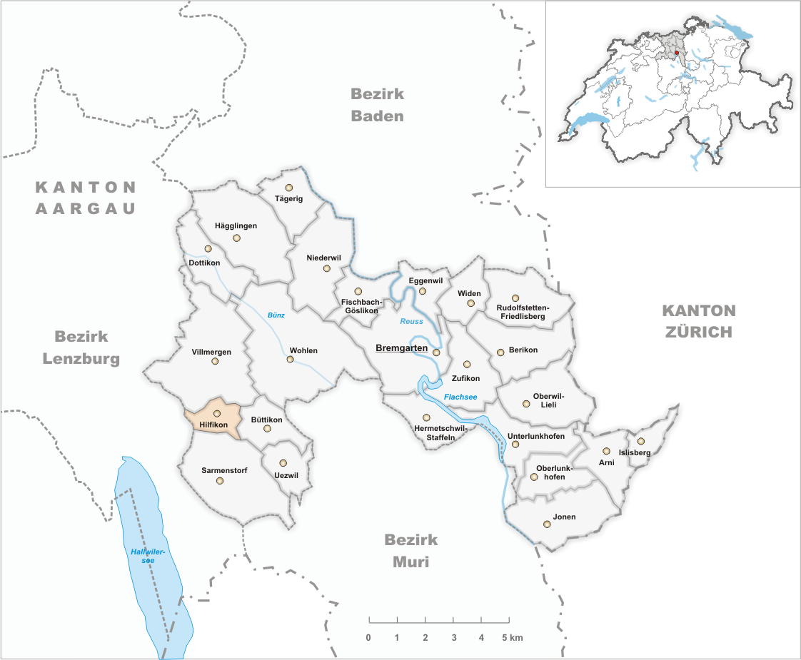 Municipality Hilfikon